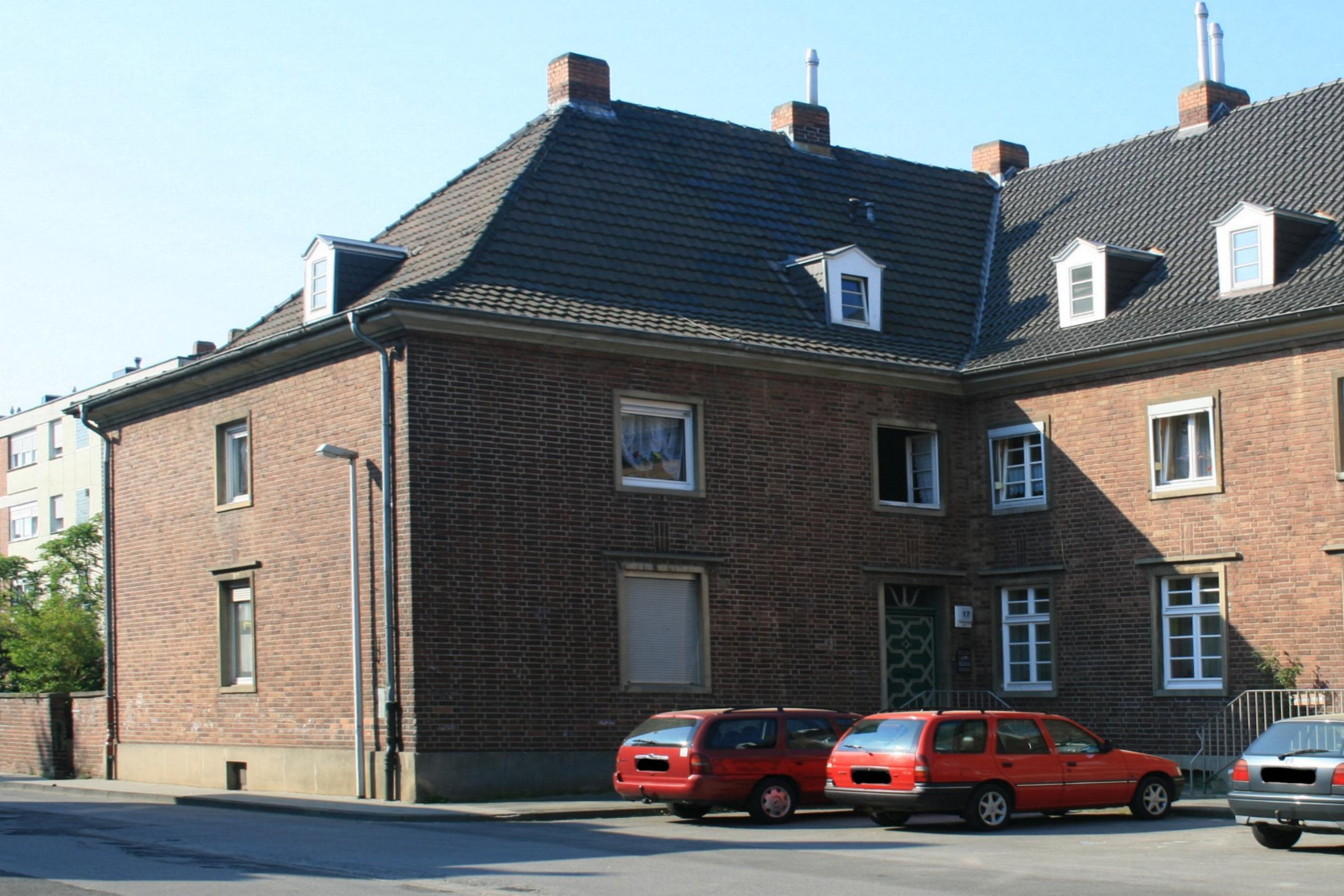 Cultural heritage monument No. 1/051 in Düren